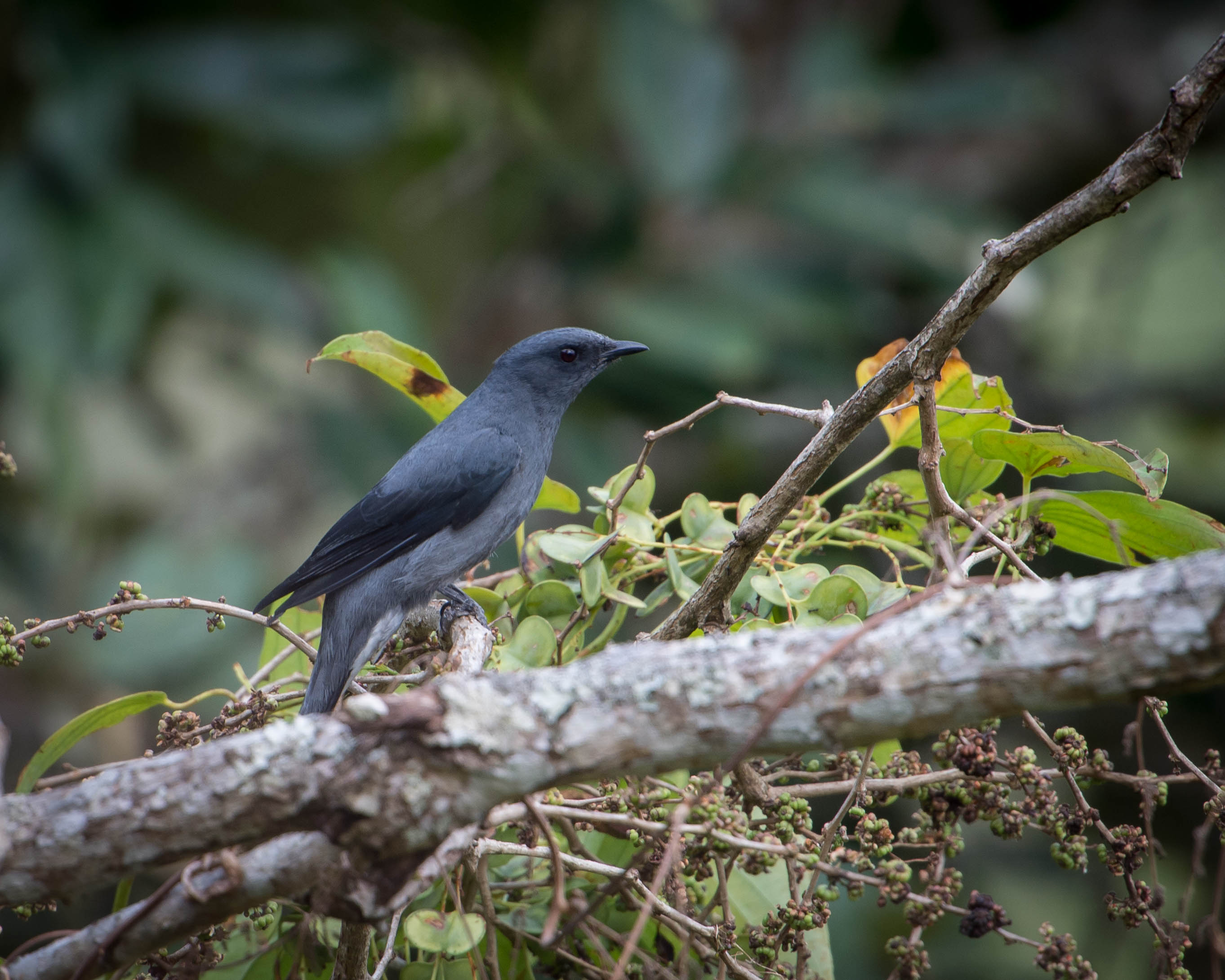 Black-winged Cuckooshrike (Coracina melaschistos) at Thai/Myanmar Border. Doi Pha Hom Pok National Park, Chiang Mai Thailand. Tallest point 2,285 metres above sea level